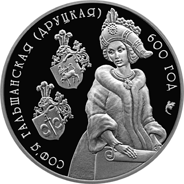 Reverse: in the center right–hand part – the relief of Sophia of Galshany, in the left–hand part – the relieves of the Coat of Arms of families of Galshanys’ and Drutsks’ – noble and powerful prince’s families of the Grand Duchy of Lithuania; inscriptions along the rim: "СОФ'Я ГАЛЬШАНСКАЯ (ДРУЦКАЯ)" (SOPHIA OF GALSHANY (DRUTSK) and "600 ГОД" (THE 600–TH ANNIVERSARY).